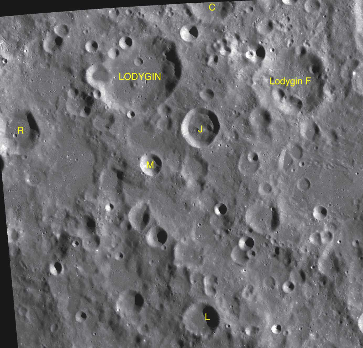 Part of the chart LAC-106 used for the presentation